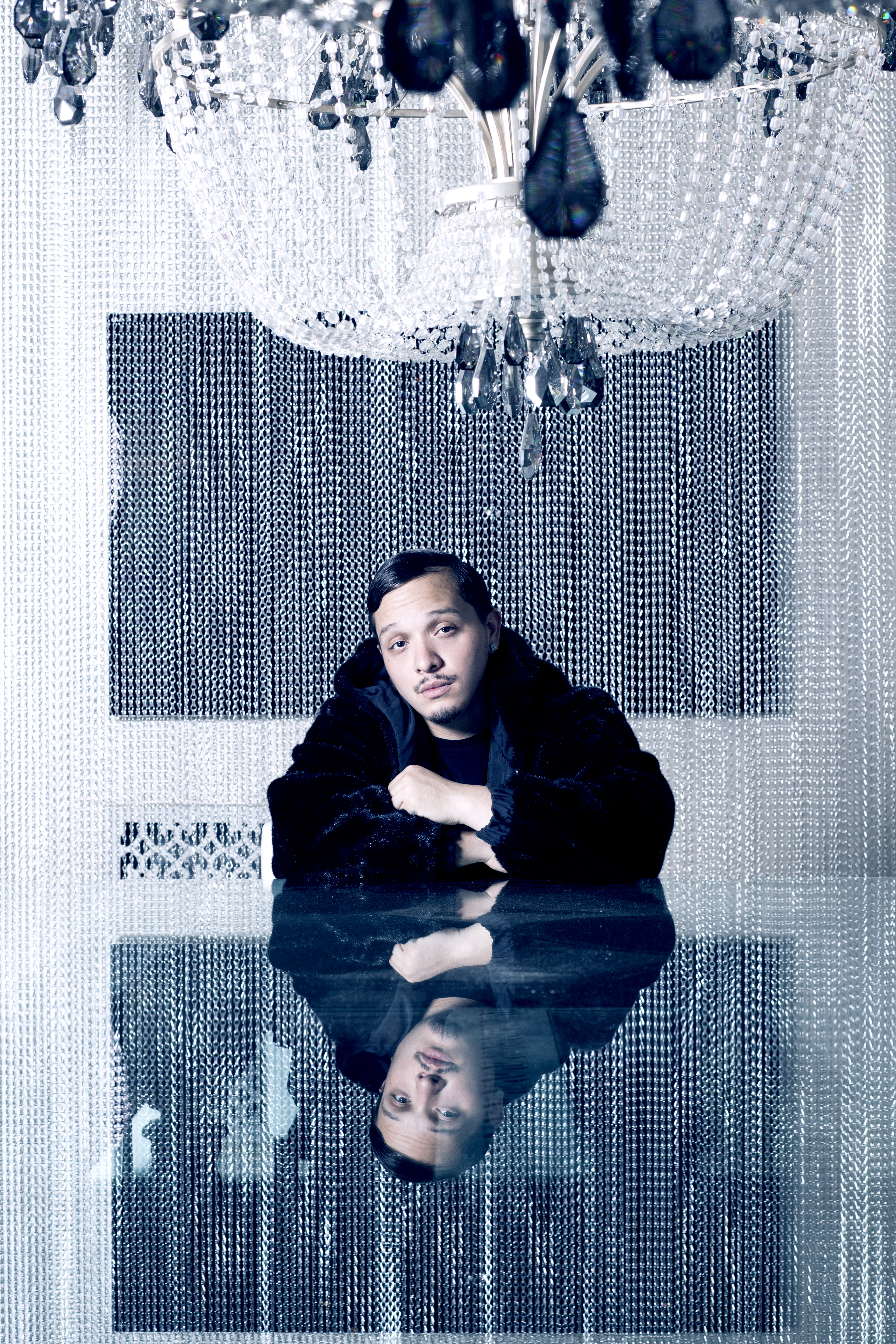 Scoop DeVille during The Source photoshoot